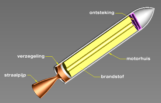 Dutch version of Solif-fuel engine. This is an edit of SolidRocketMotor.png on . Originally created by Pud